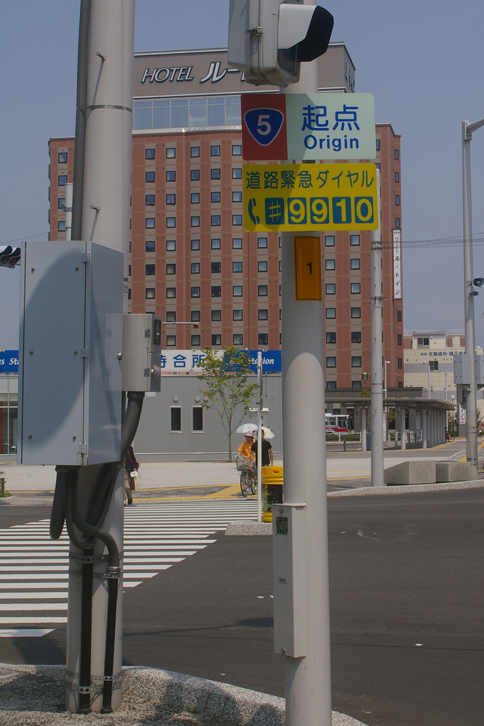 Photograph of the origin sign of Route 5 in Hakodate, Hokkaido, Japan.